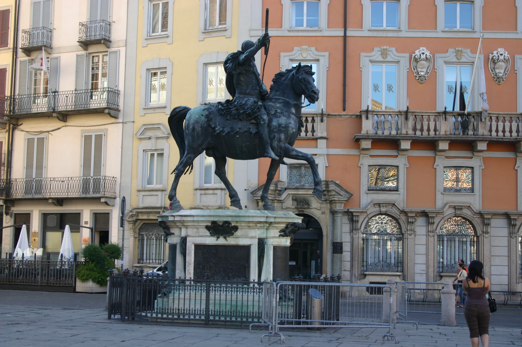 The bronze monument (dating from 1615) to Ranuccio I Farnese, duke of Parma and Piacenza, was created by Francesco Mochi (1580-1654). It stands in the main square, "Piazza dei cavalli", in Piacenza, Italy. Picture by Giovanni Dall'Orto, July 14 2007.